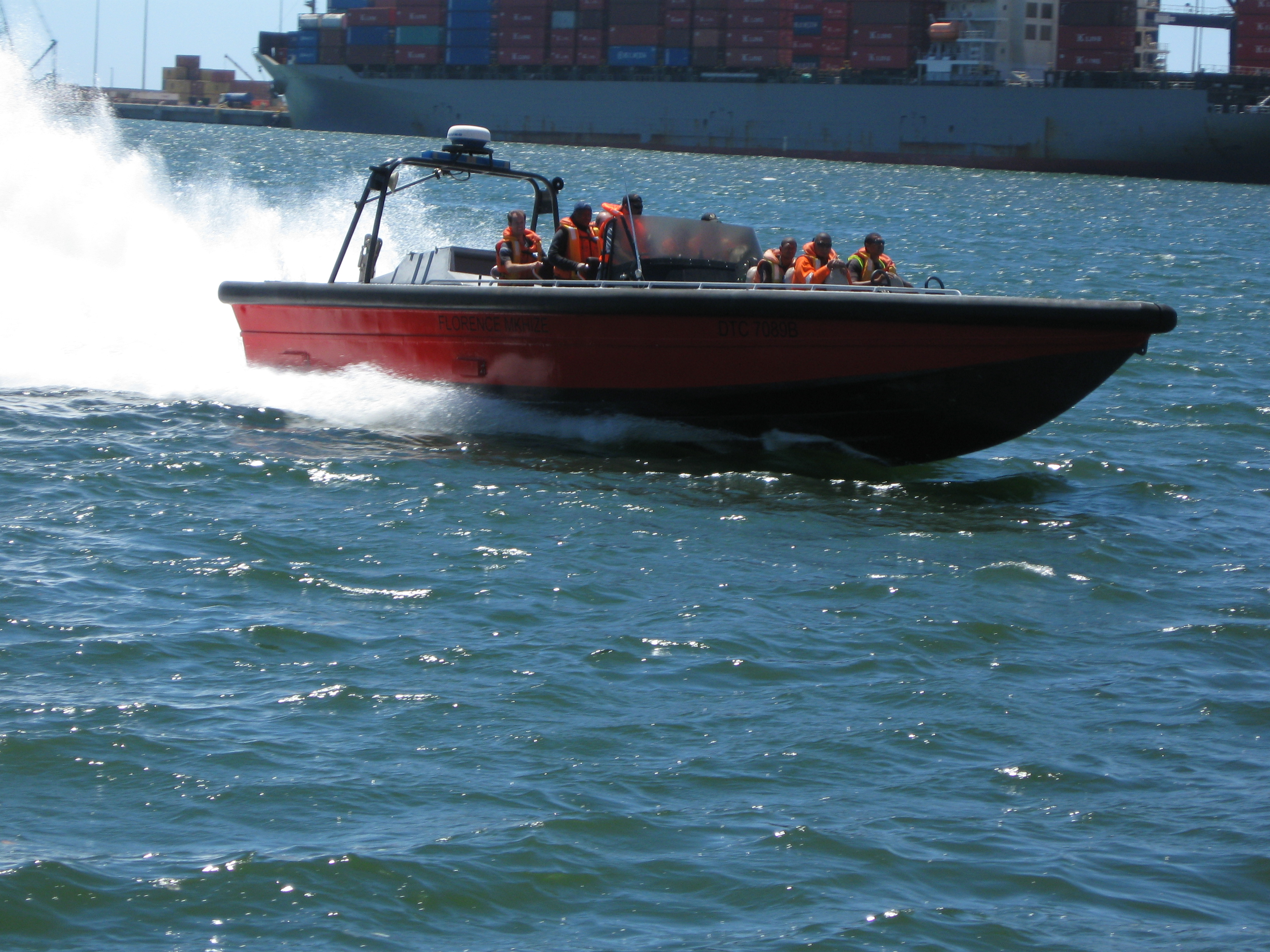 Accelerating after making a sharp turn in harbour